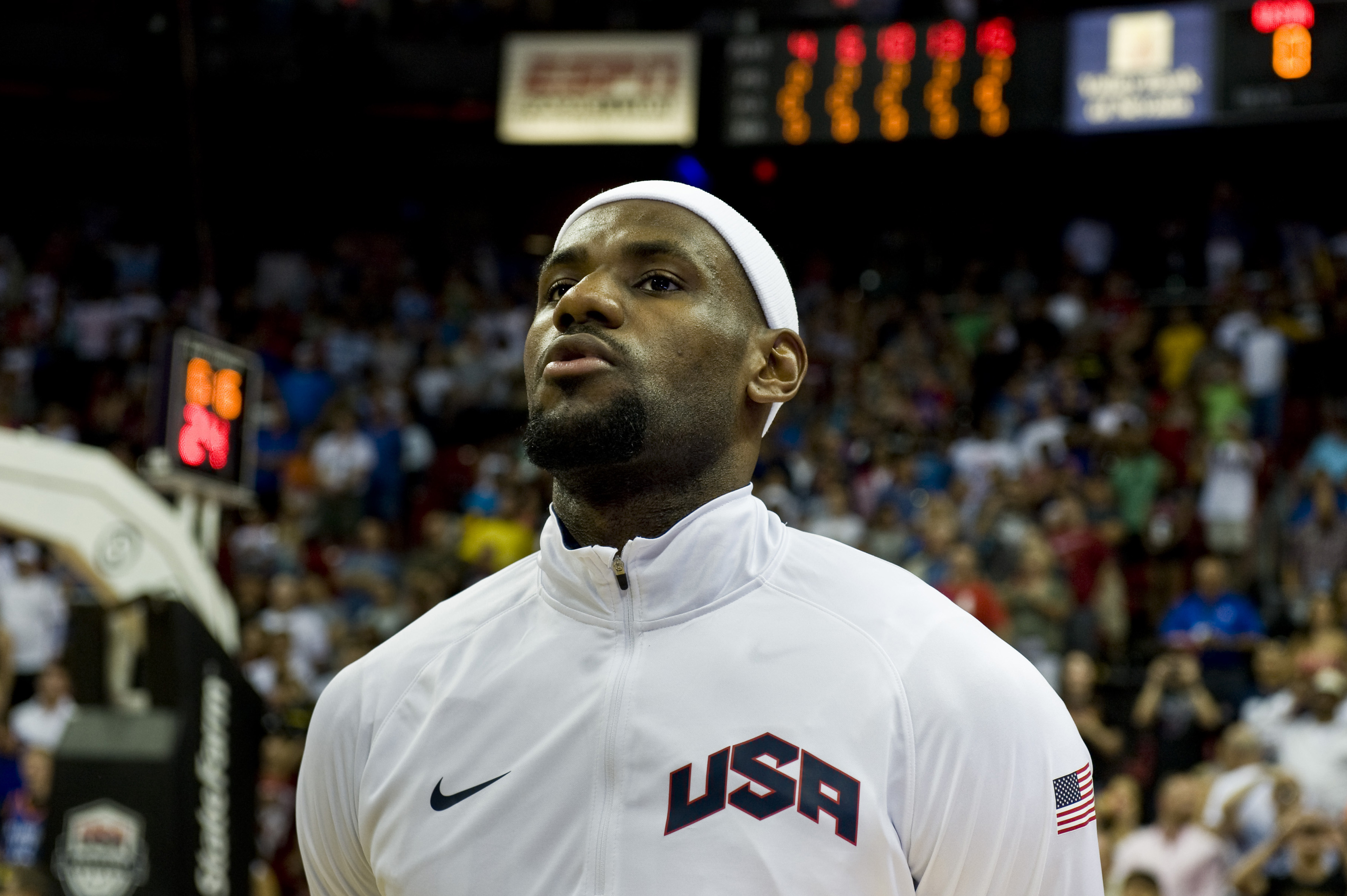 Lebron James, USA Olympic Men’s Basketball player, listens to the national anthem prior to the start of the USA versus Dominican Republic exhibition game, July 12, 2012, at the Thomas and Mack Center, Las Vegas, Nev. James is the only member of the 2012 Champion Miami Heat team on the Olympic Basketball team this year.